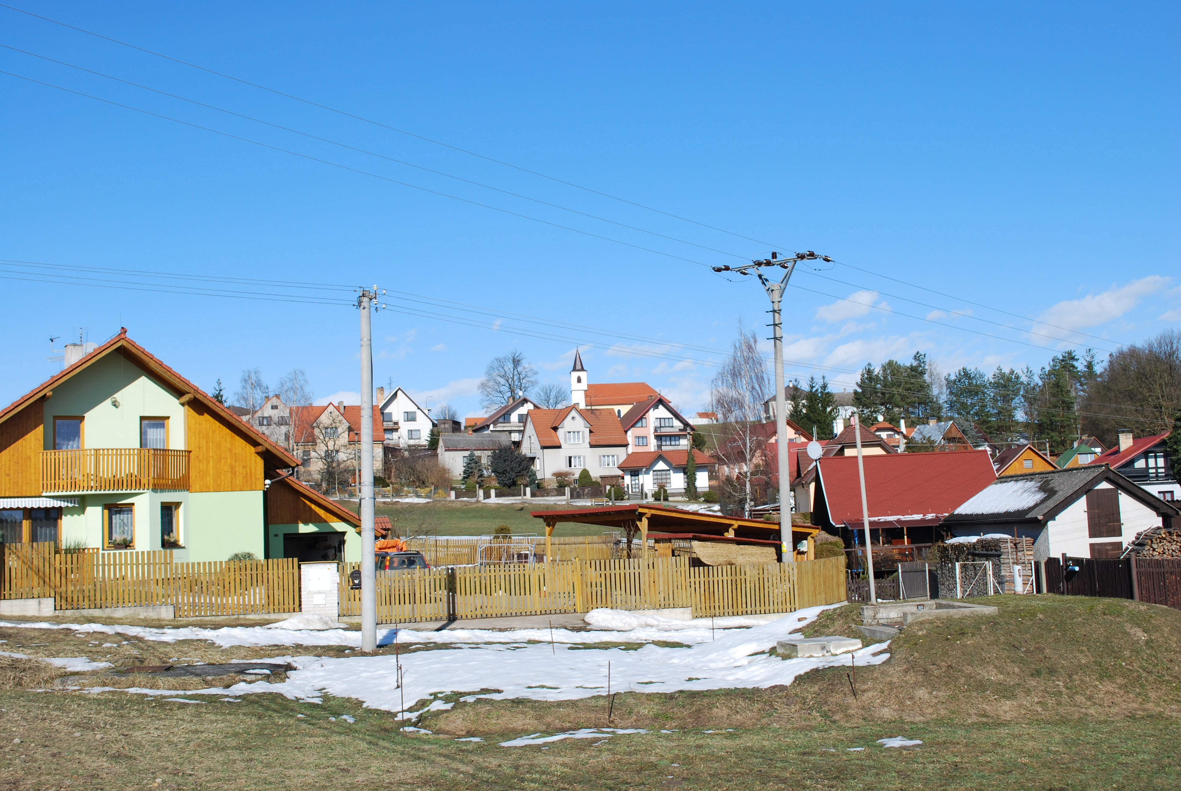 Skalice village in Tábor District, Czech Republic This photograph was taken within the scope of the 'Czech Municipalities Photographs' grant. - OpenStreetMap(Info)